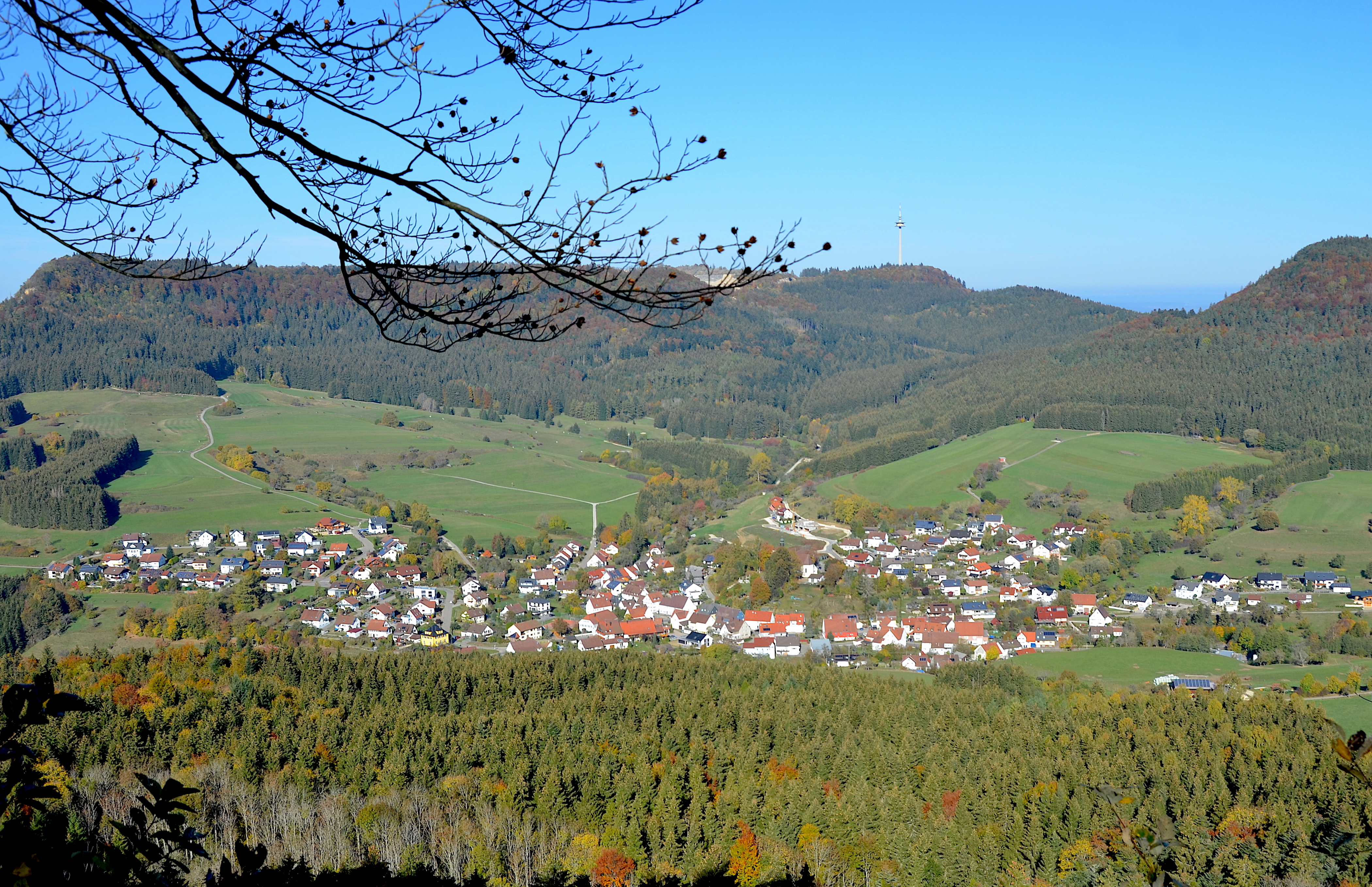 Hausen am Tann and Plettenberg (2018)